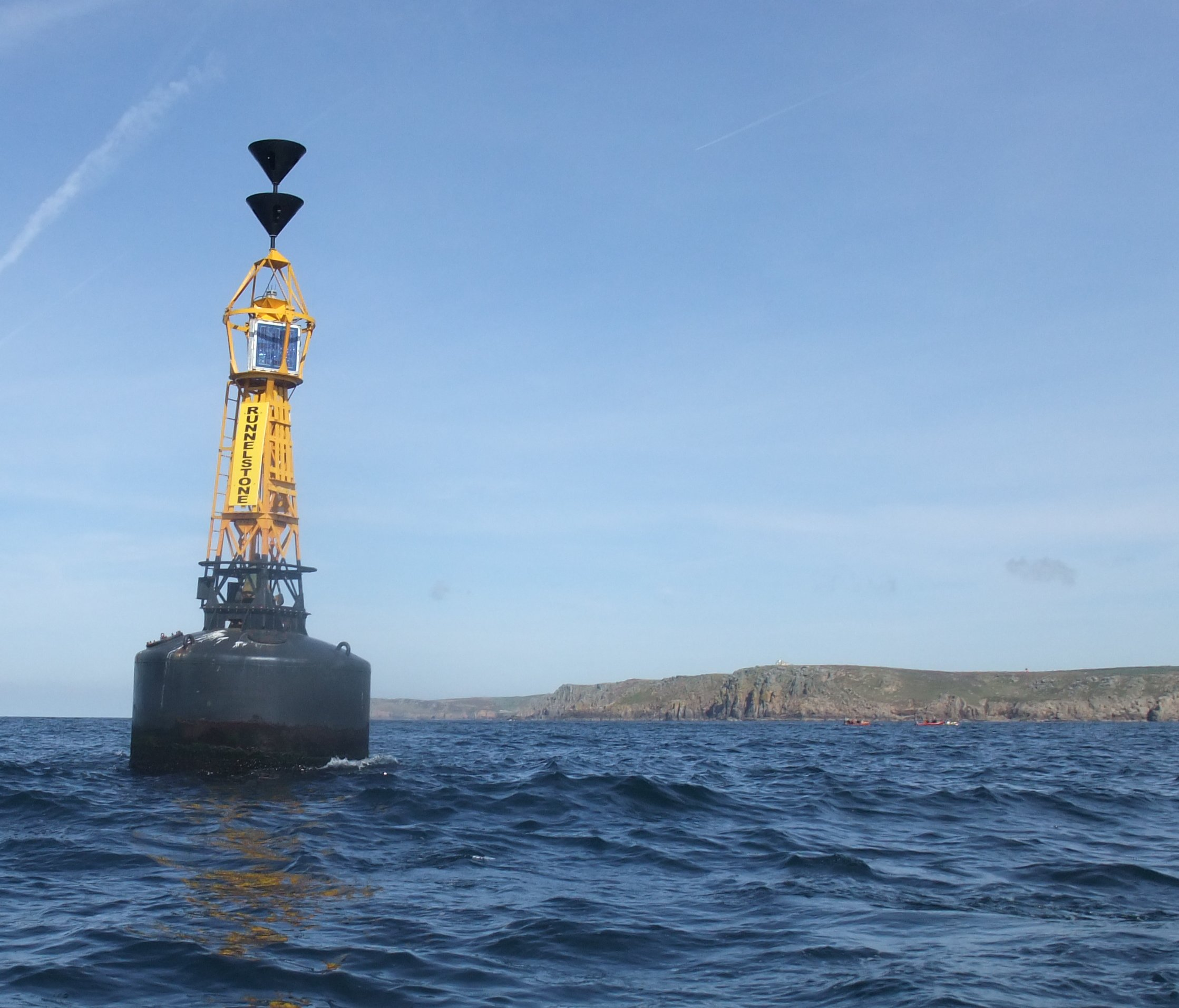 South cardinal buoy marking the Runnel Stone, near Land's End, Cornwall with dive boats visible